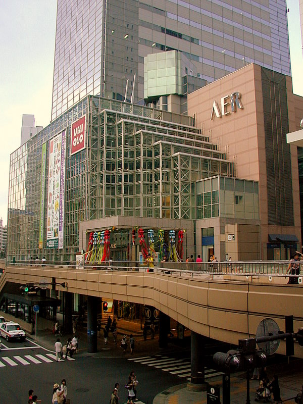 the lower portion of AER, the highest building in Sendai by 2009, photographed during the Sendai Tanabata Festival days